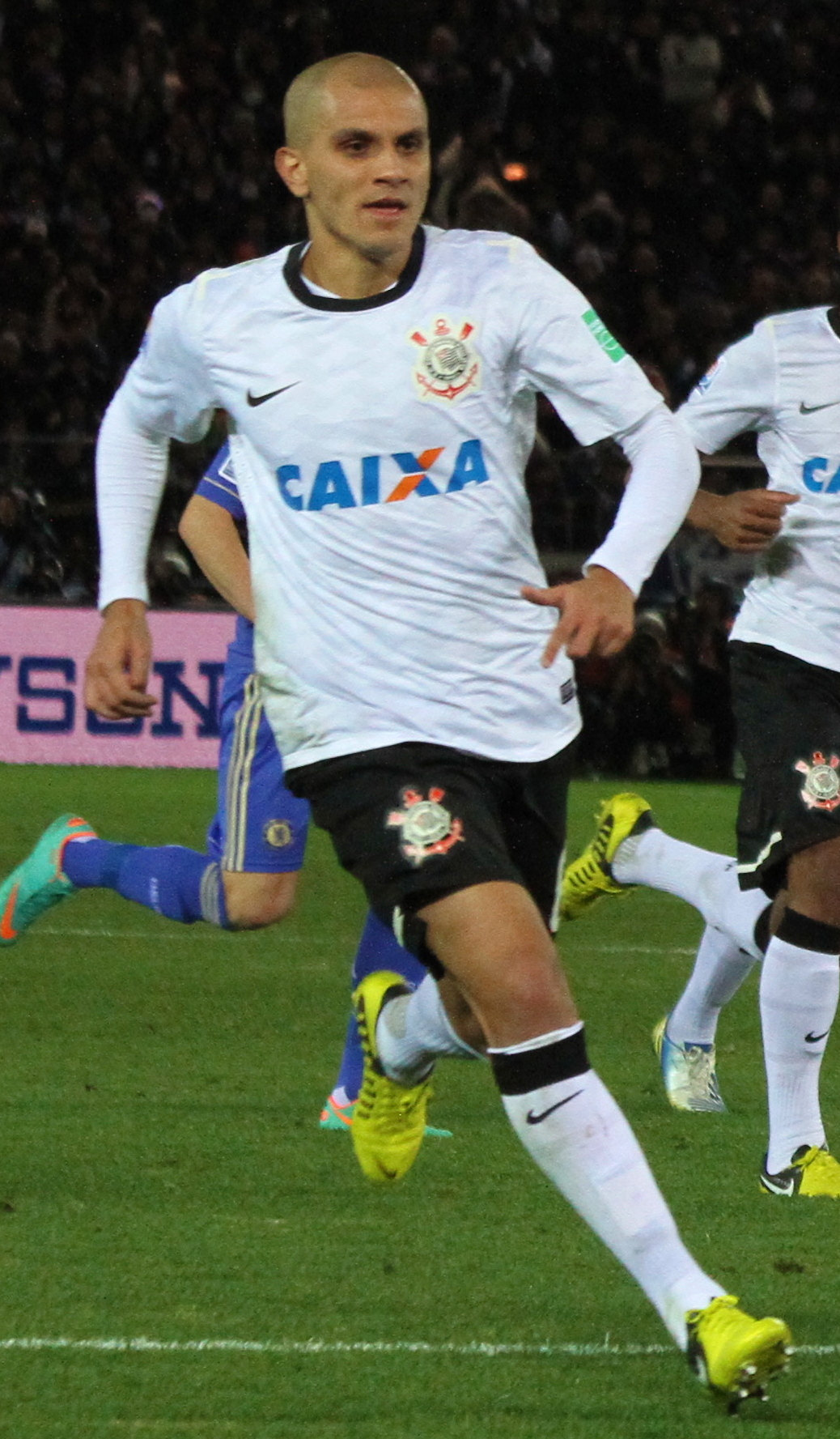 Fernando Torres of Chelsea